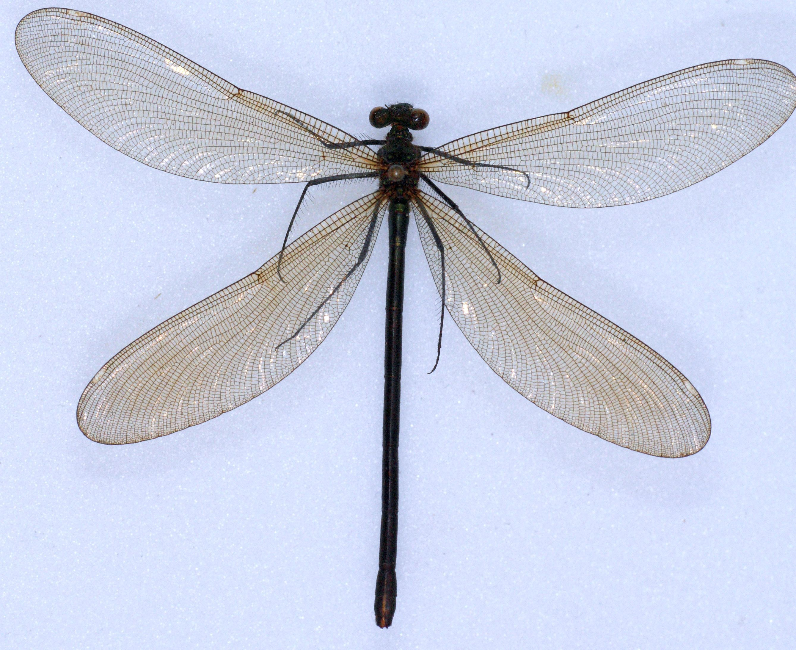 Female Beautiful Demoiselle Calopteryx virgo